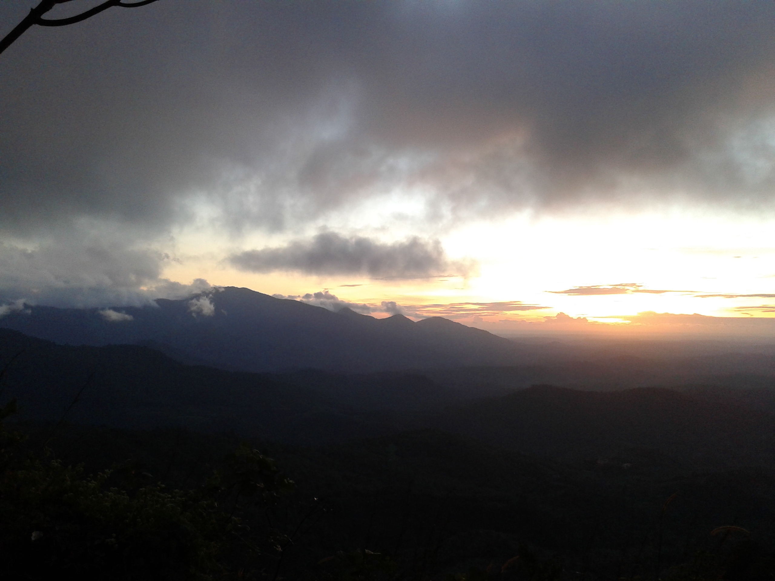 Elapeedika